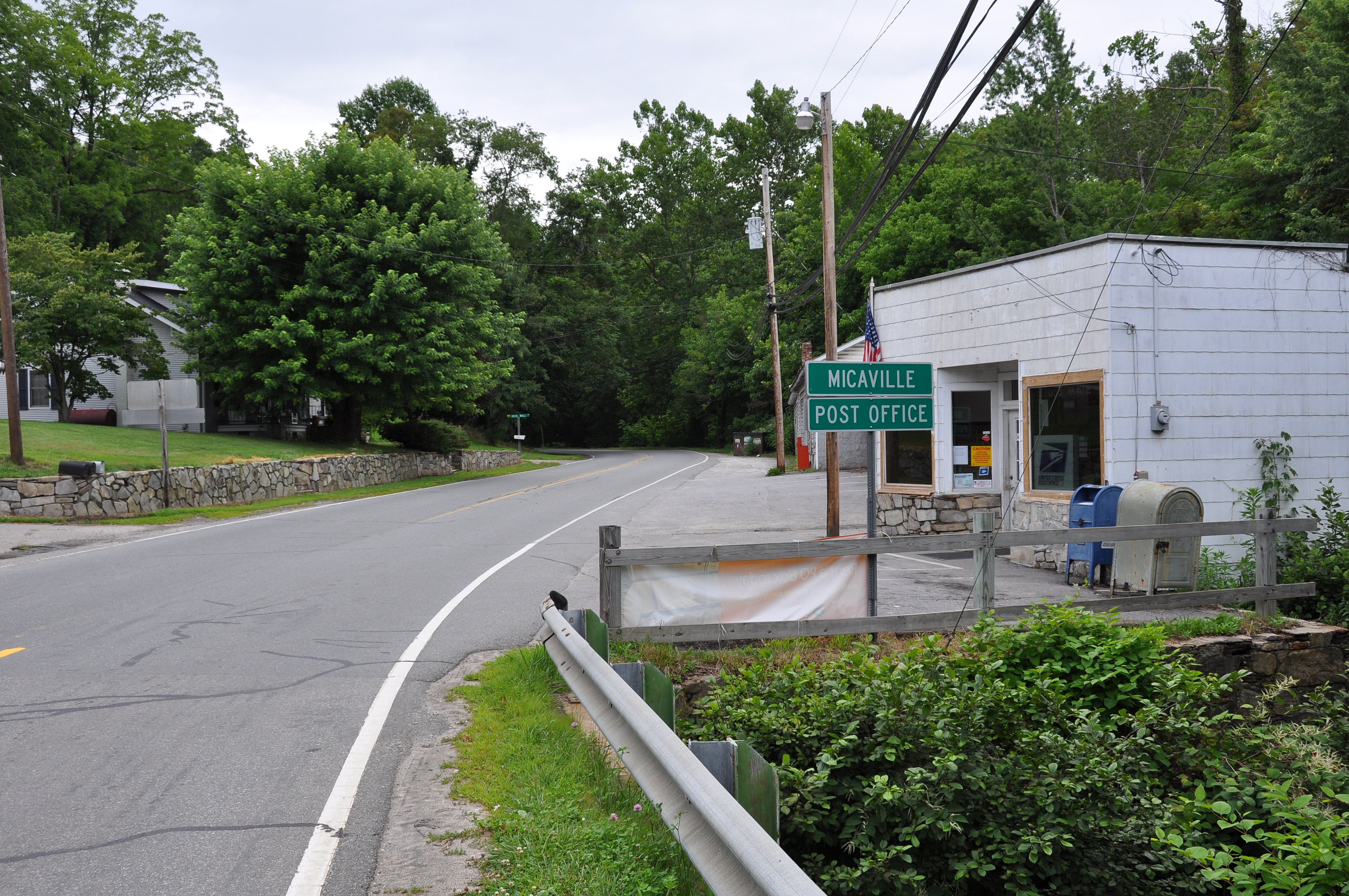 Sign of both the community of Micaville and the Post Office, along North Carolina Highway 80 in Yancey County.